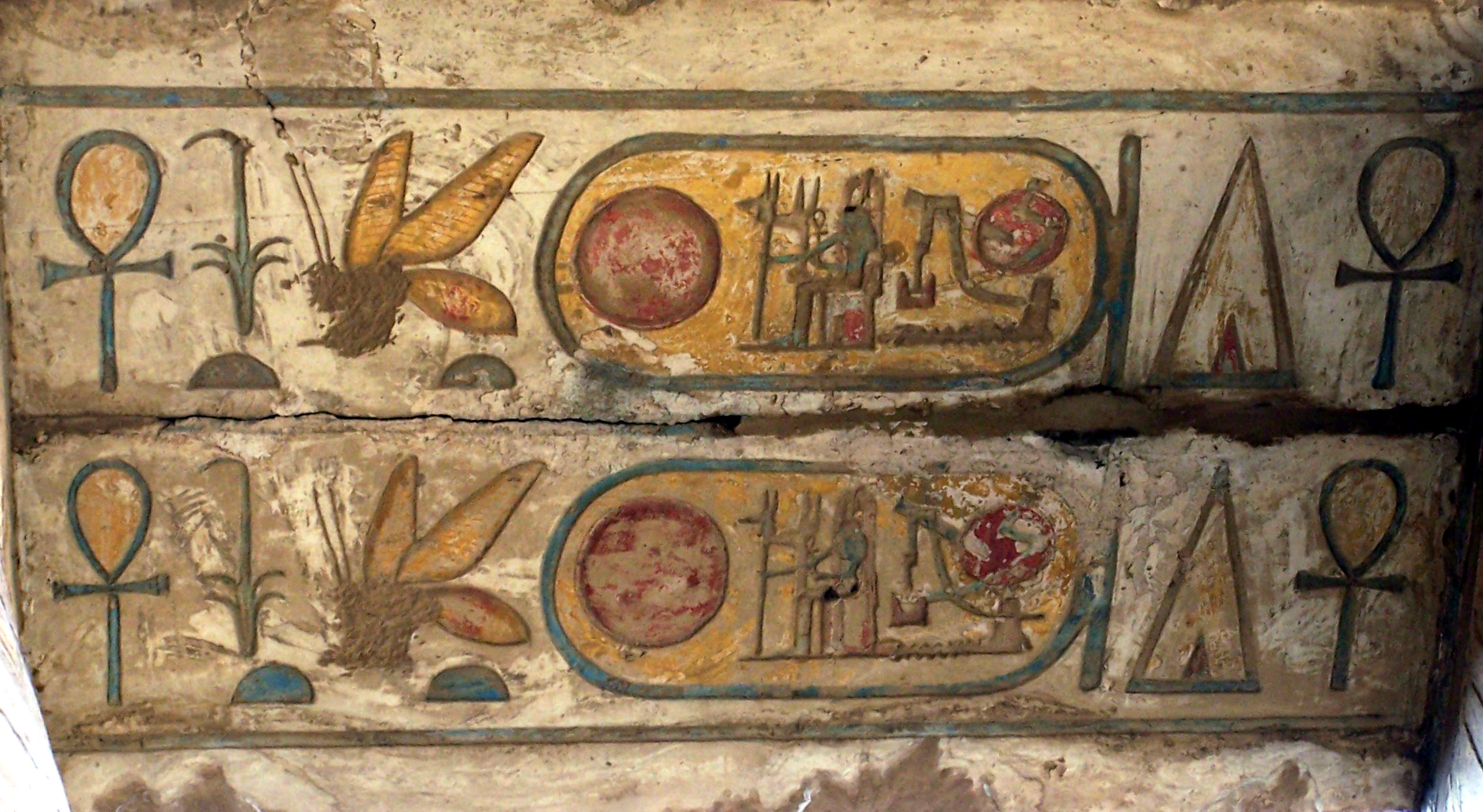 Cartouches of Ramses II. Karnak